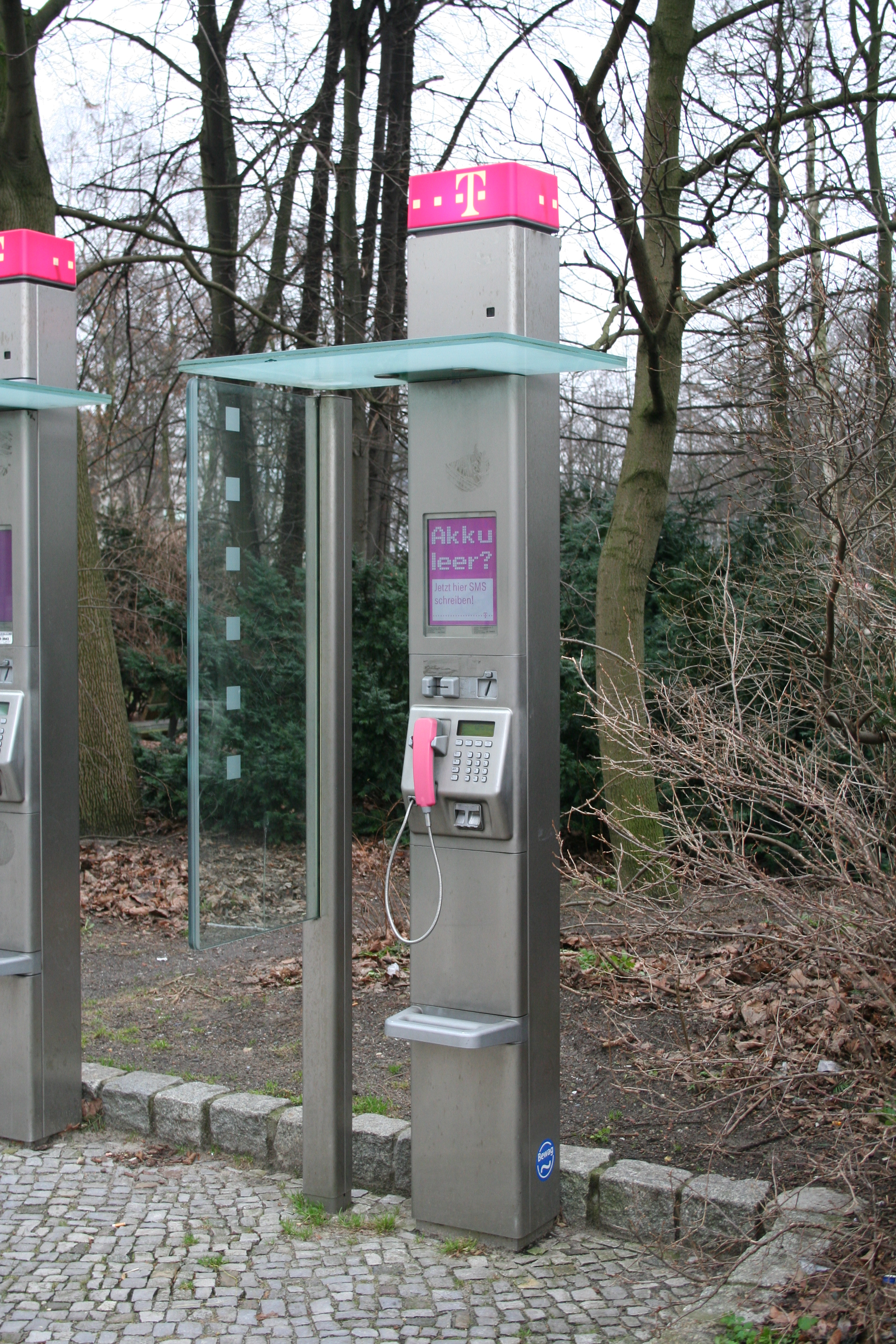 Deutsche Telekom public phone opposite of the Reichstag in Berlin